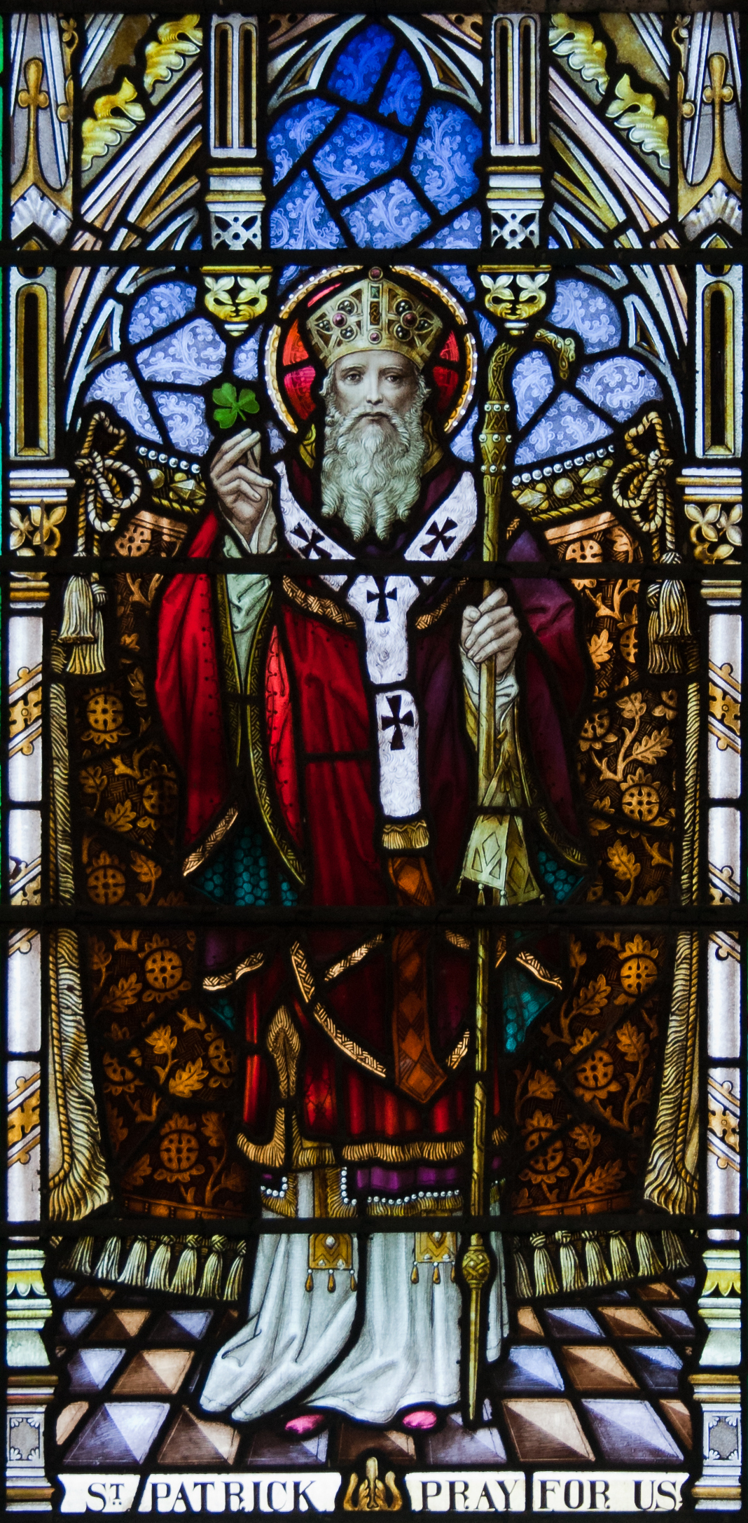 Detail of stained glass of the fourth window of the north wall, depicting St. Patrick.